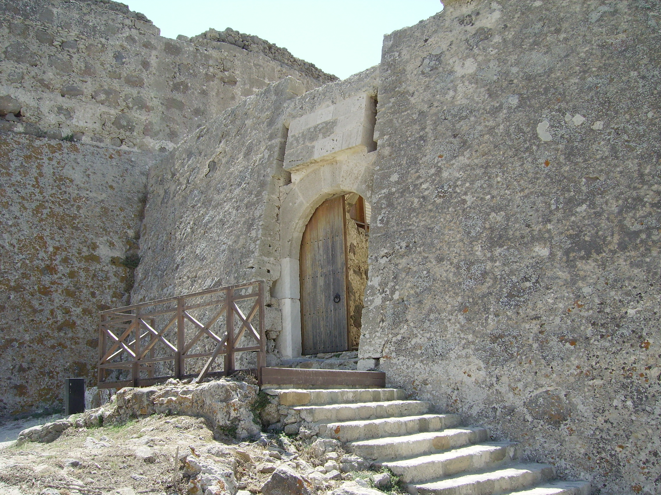 Kos_Andimach_cast01.JPG